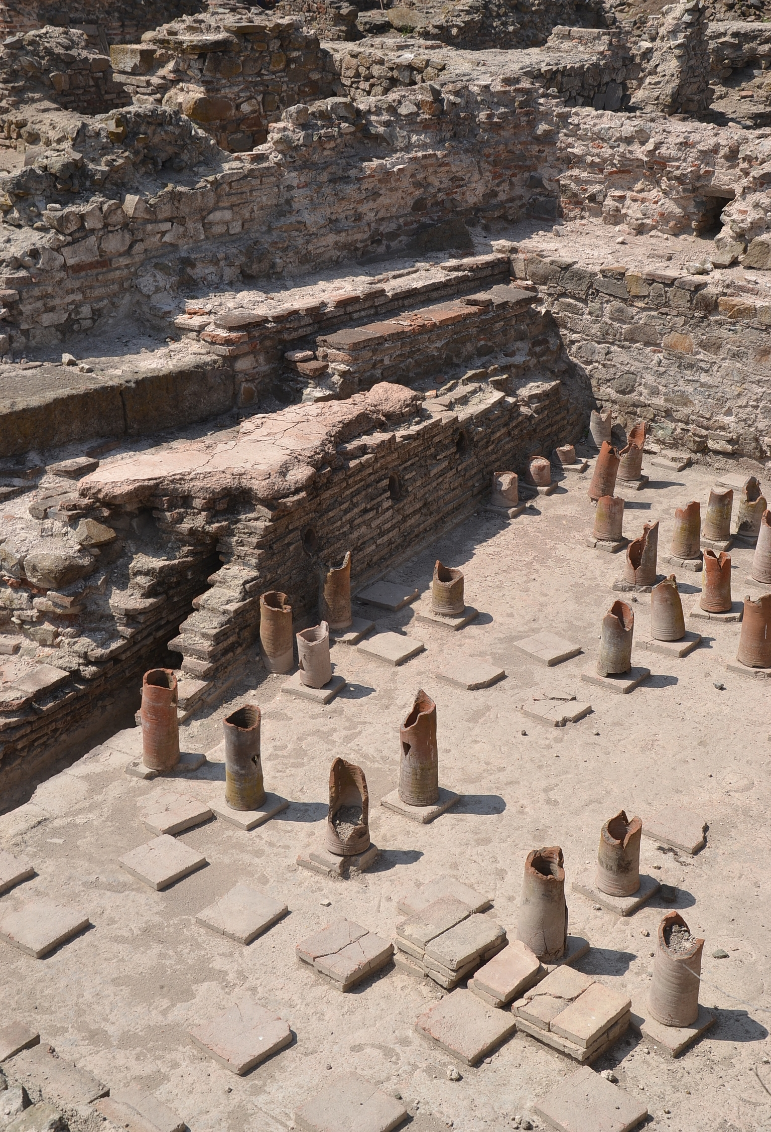 Debelt (Дебелт), Bulgaria - ruins of ancient city Deultum